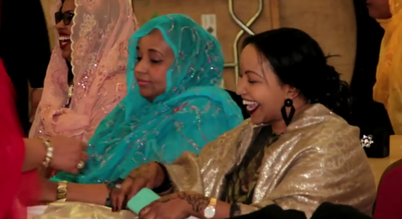 Somali women at a Somali community event.